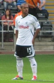 This is a picture taken of Wayne Routledge playing for Swansea City in a Pre Season friendly versus Real Betis